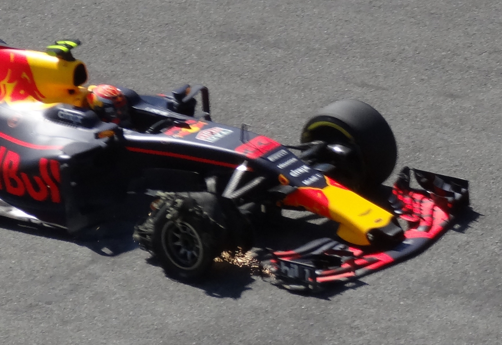 Verstappen Monza 2017